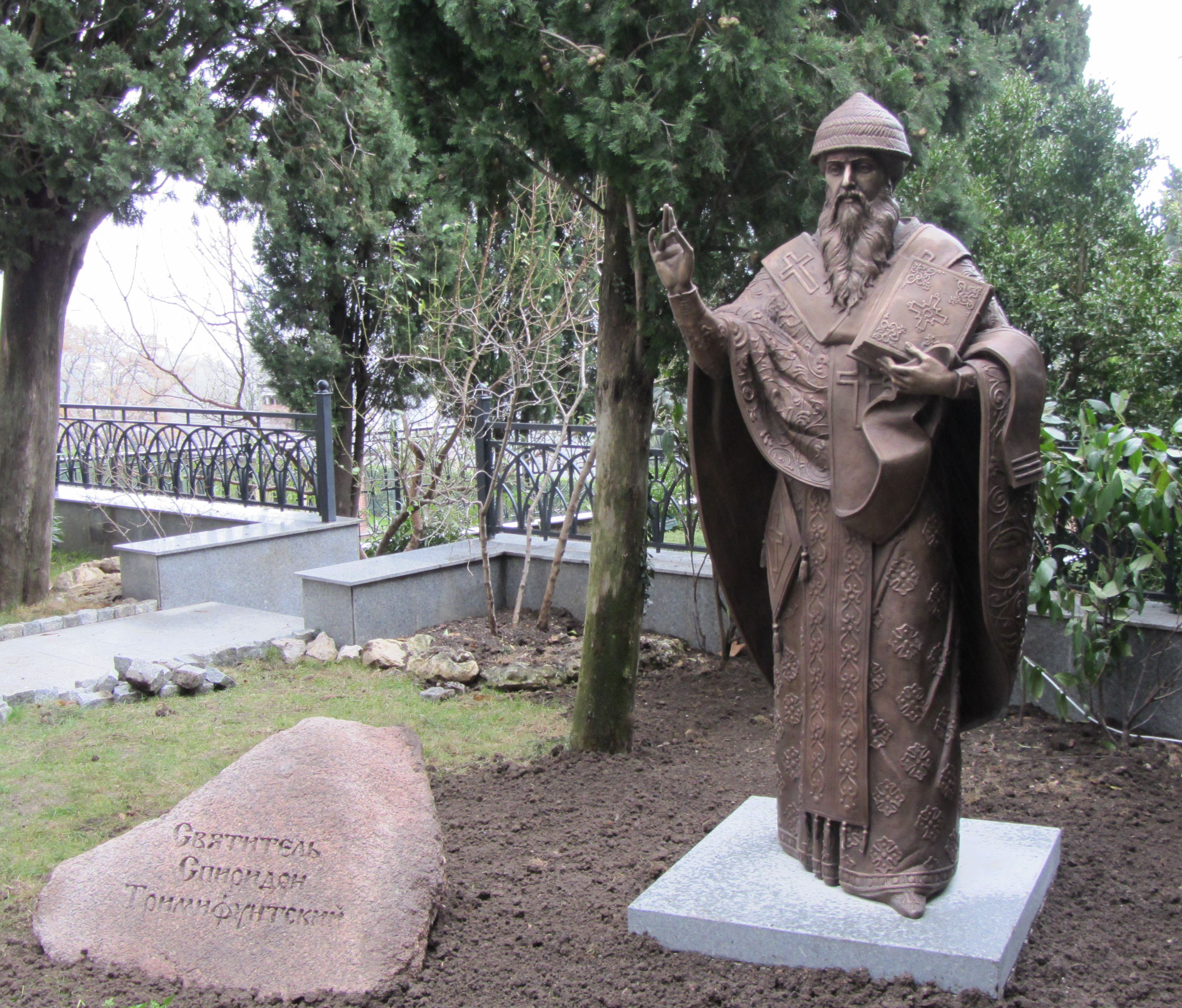 The monument is erected in Semeiz, Krimea, year 2012. The monument is 2 meters high. The authors are Oles Sidoruk and Boris Krylov. Material - bronze.